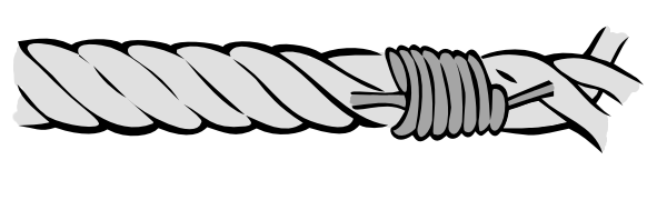 common whipping (GNU-FDL), selfdrawn drawing by: Hella handdrawing 1995, 2004 new revised with autotrace [1], sodipodi[2] and gimp [3] for the german wikipedia. first publicated: 1995 in Knoten (nicht nur) für Pfadfinderinnen, publisher PSG München alternative view (all steps in one picture): common wipping binding other pictures of this series: rope without wipping, step 1, step 2, step 3 17:50, 21 May 2004 Hella 600x180 (34,120 bytes) (rope without whipping (GNU-FDL), selfdrawn)